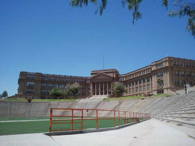 El Paso High School — in El Paso, Texas. The 1916 Neoclassical style building was designed by architect Henry Trost of Trost & Trost.